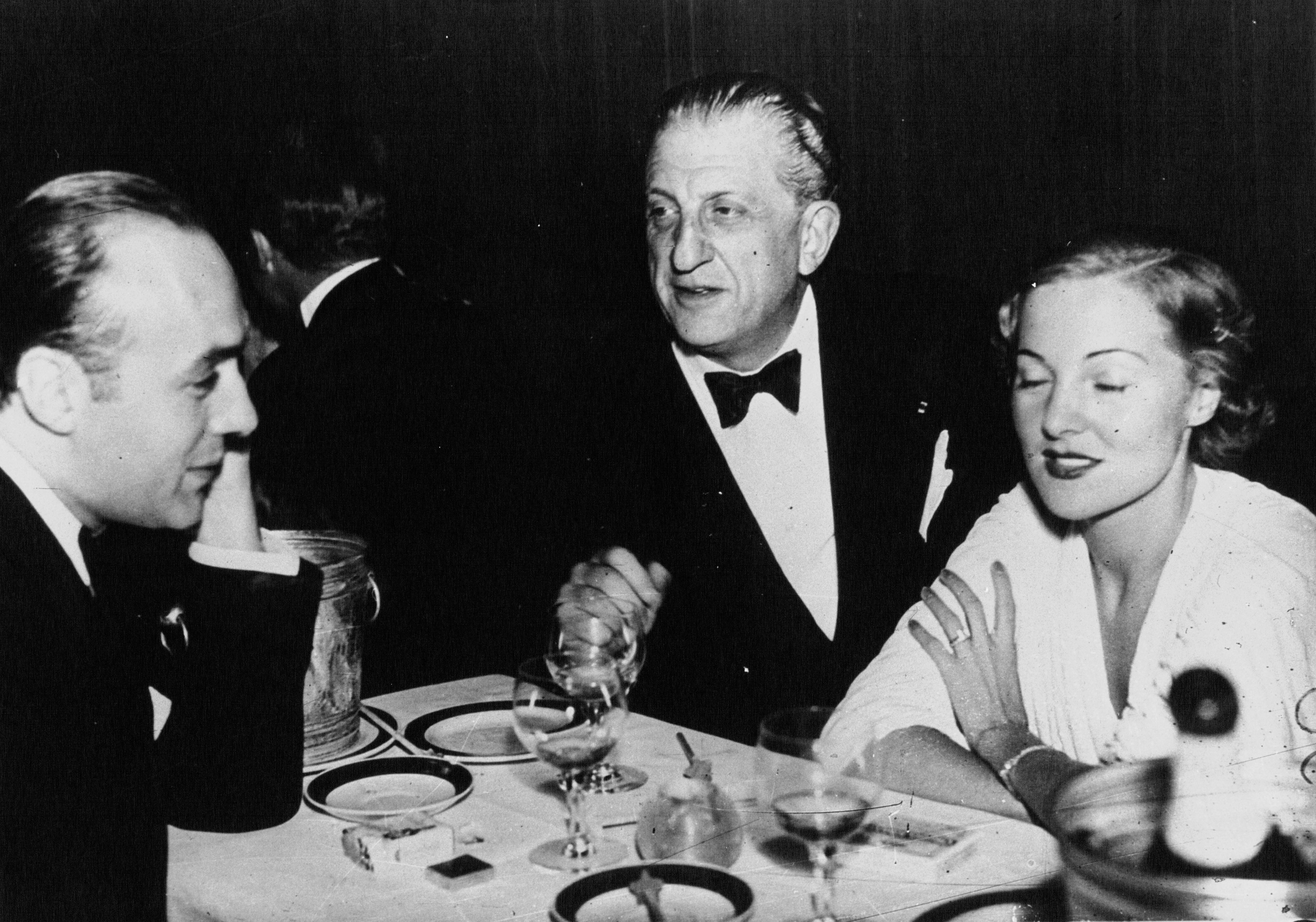 French playwright Henri Bernstein (centre) with actors Charles Boyer and Pat Paterson in London in 1936.